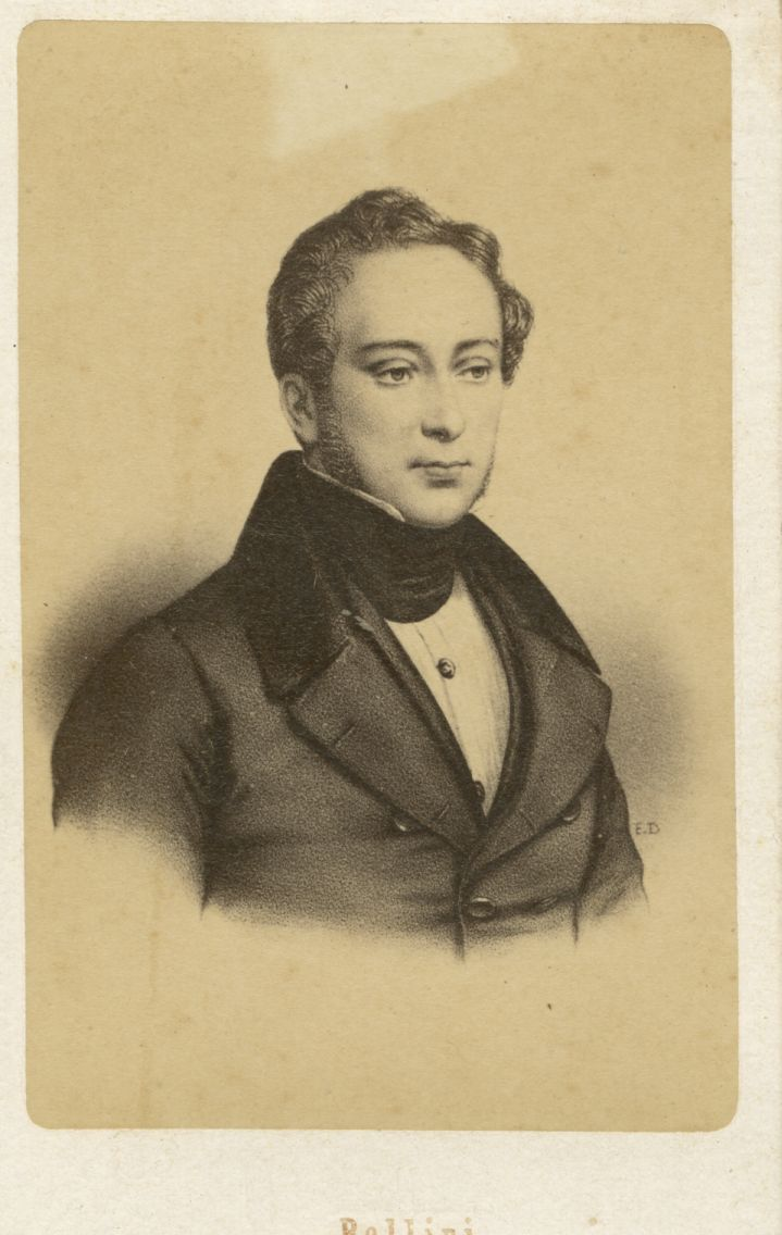 Artist: E. Neurdein Date/place: Unknown date/Paris Subject: Vincenzo Bellini Medium: Liturgraphic Notes: Sicilian composer. Born in Catania 03.11. 1801 - dead in Paris 24.09. 1835 Original belongs to the Archives at [#//bergenbibliotek.no/digitale-samlinger” Bergen Public Library]